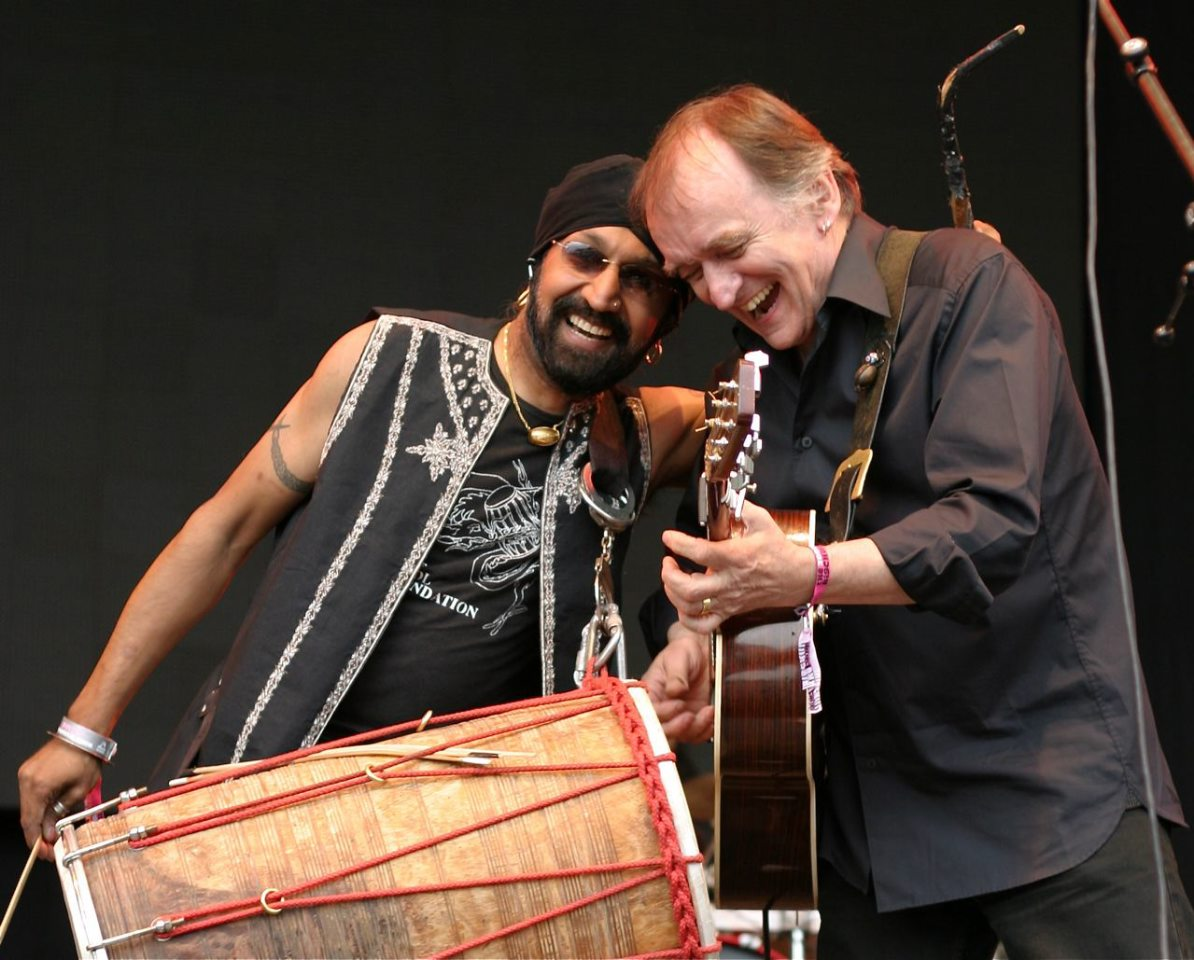 Johnny Kalsi & Martin Carthy performing with The Imagined Village @ The Big Chill Festival 2008 © Mark A Bennett [Photographer]